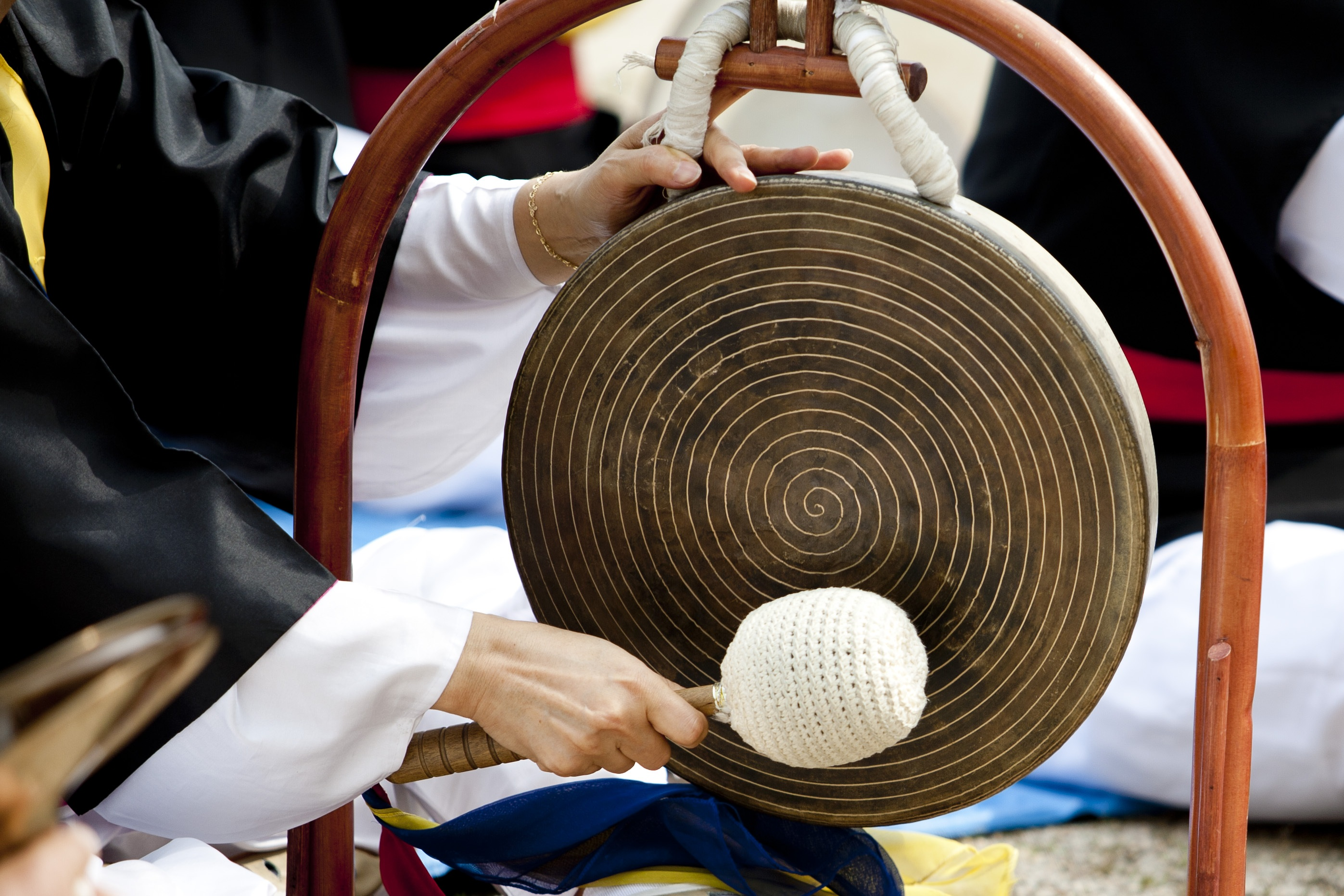 Jing